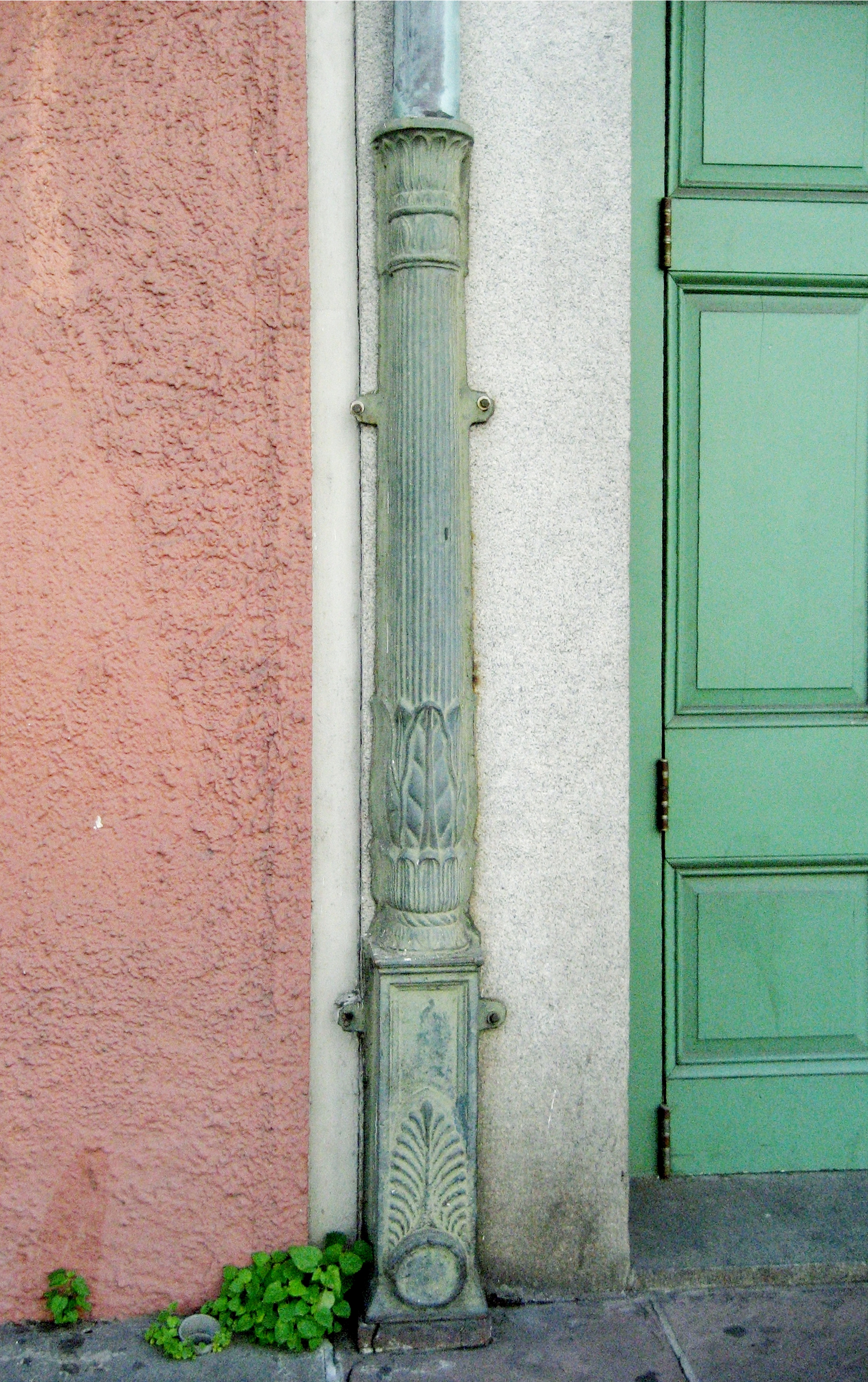 New Orleans Old metal drain pipe on Chartres Street in the French Quarter